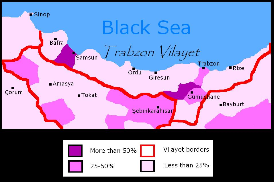 Christian population in the Black Sea region in 1896. According to the information of this map: The Christians in the Trabzon Vilayet and the Black sea coast were mostly Greeks. In the areas south of the Trabzon Vilayet and the Black Sea coast the Christians were mostly Armenians. In some areas with less than 25% Christians, the Christians were less than 15% or less than 5%. But that is not shown on the map.